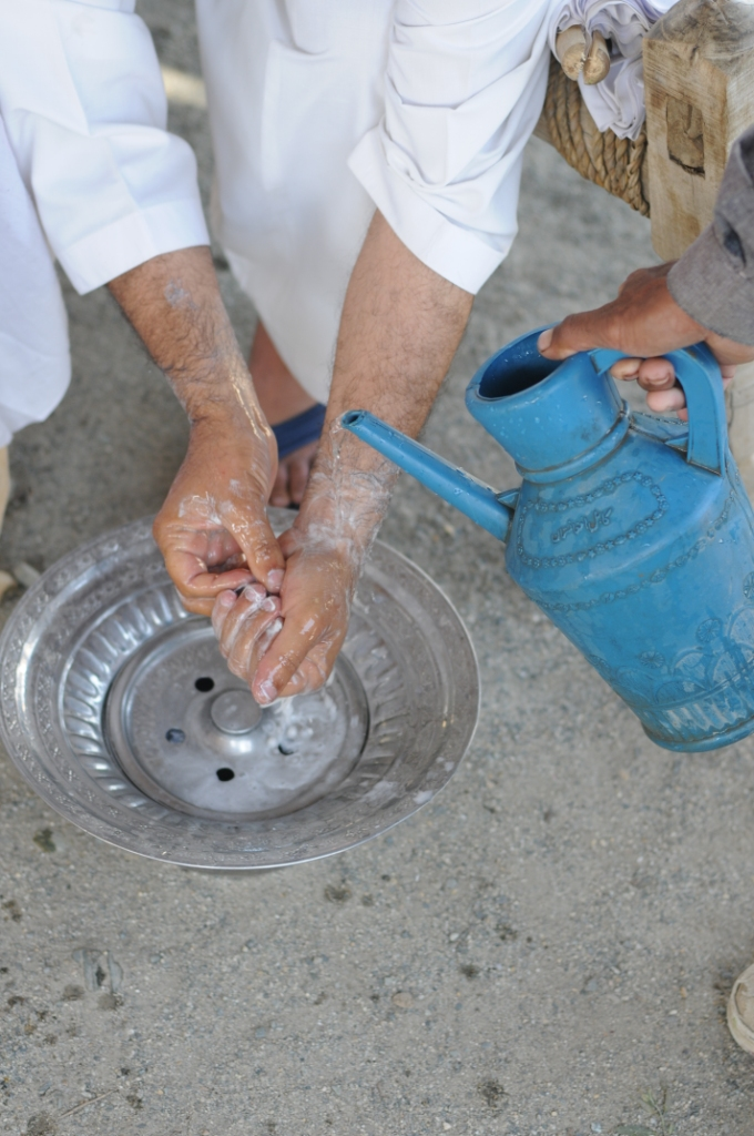 Danish NGO DACAAR educates local Afghans in rural areas in Afghanistan in hygiene education